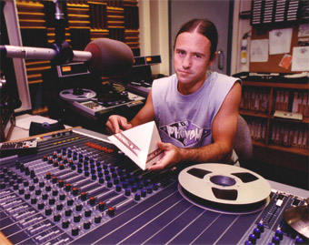 Photograph of Jeff Green at a radio production control board.